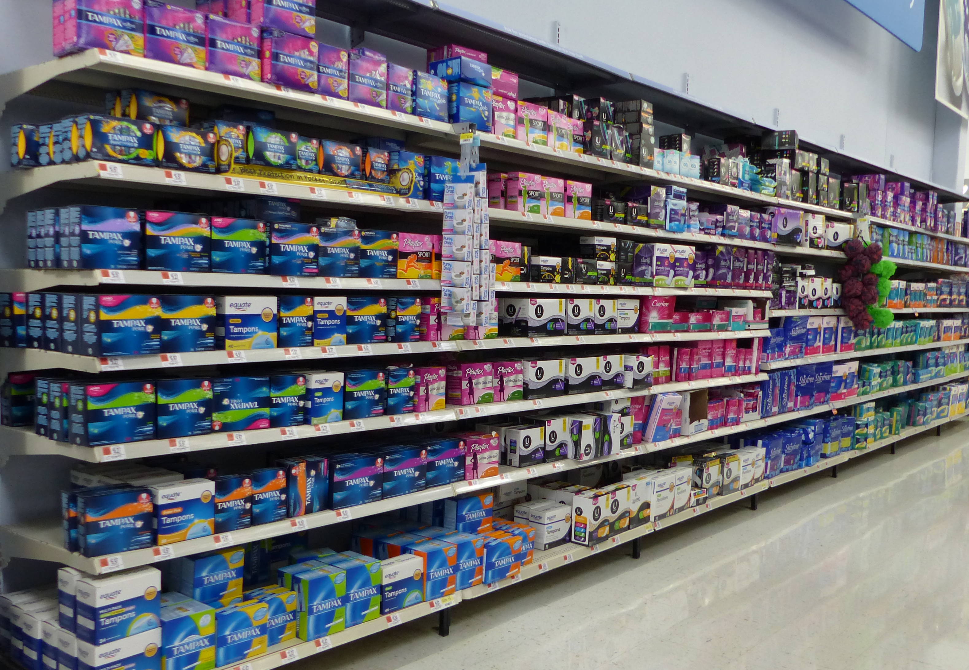 Feminine hygiene assortment in a Walmart in the U.S.